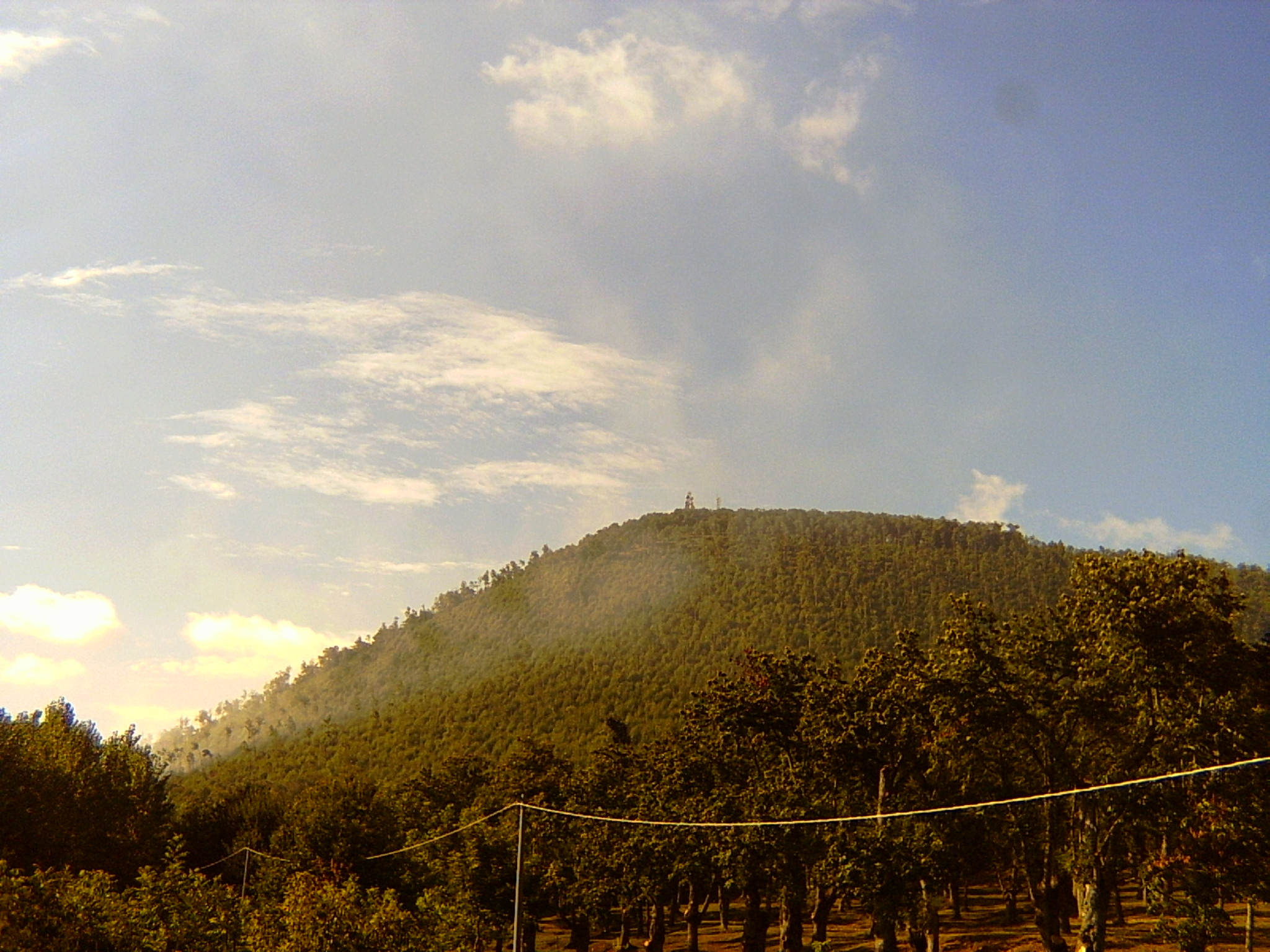 View of Mount Santa Croce, part of the ancient Roccamonfina volcano. Location: Caserta province, Italy